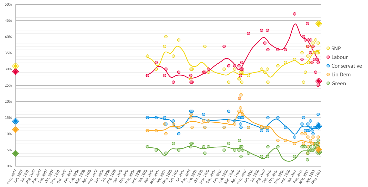 Opinion polling for the 2011 Scottish Parliament election (regional vote) with average 30 day trendline.